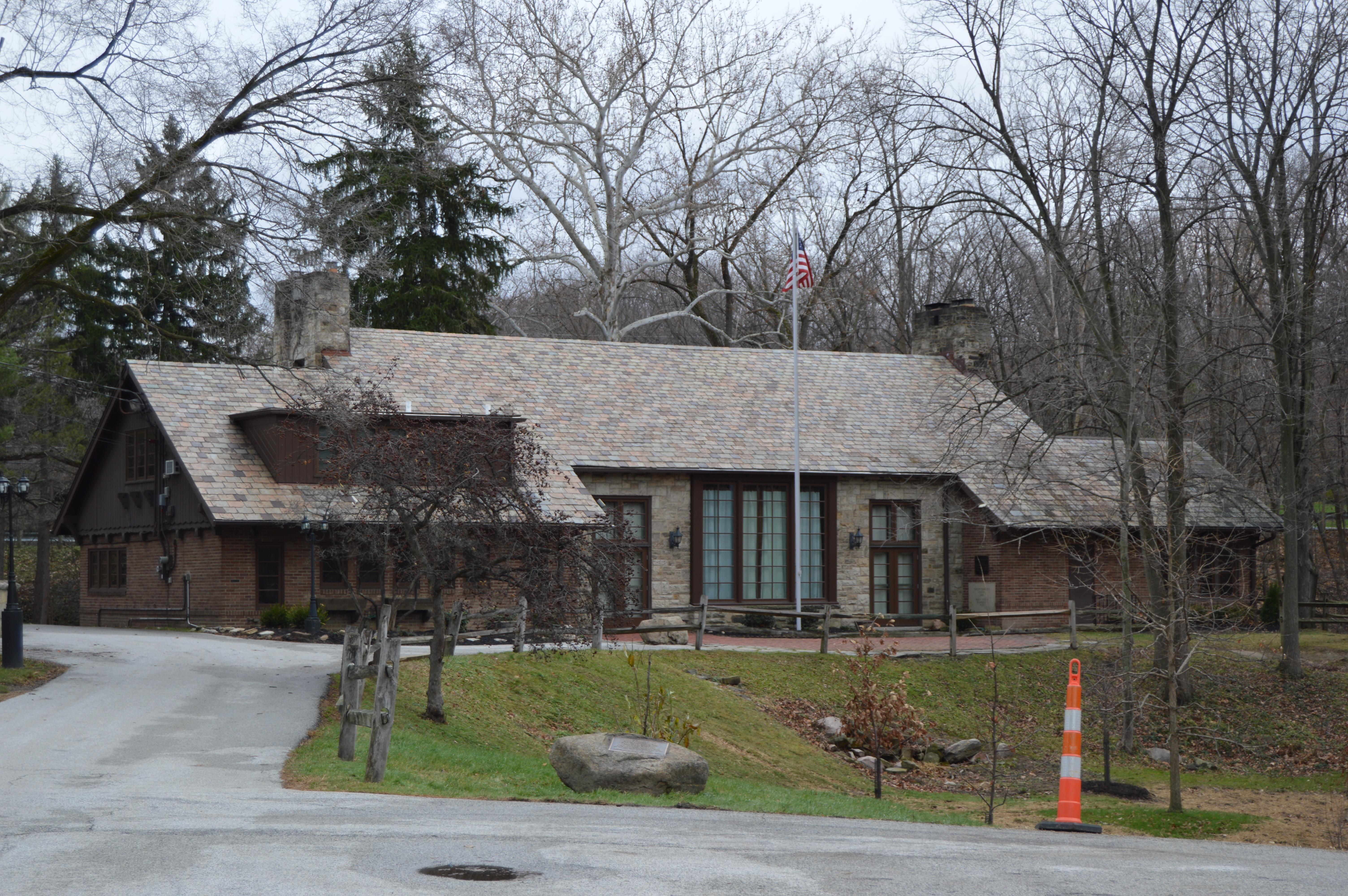 View from the southwest of the main building in the Fairview Community Park, located off Hillsdale Avenue in Fairview Park, Ohio, United States. The park is listed on the National Register of Historic Places as a historic district.